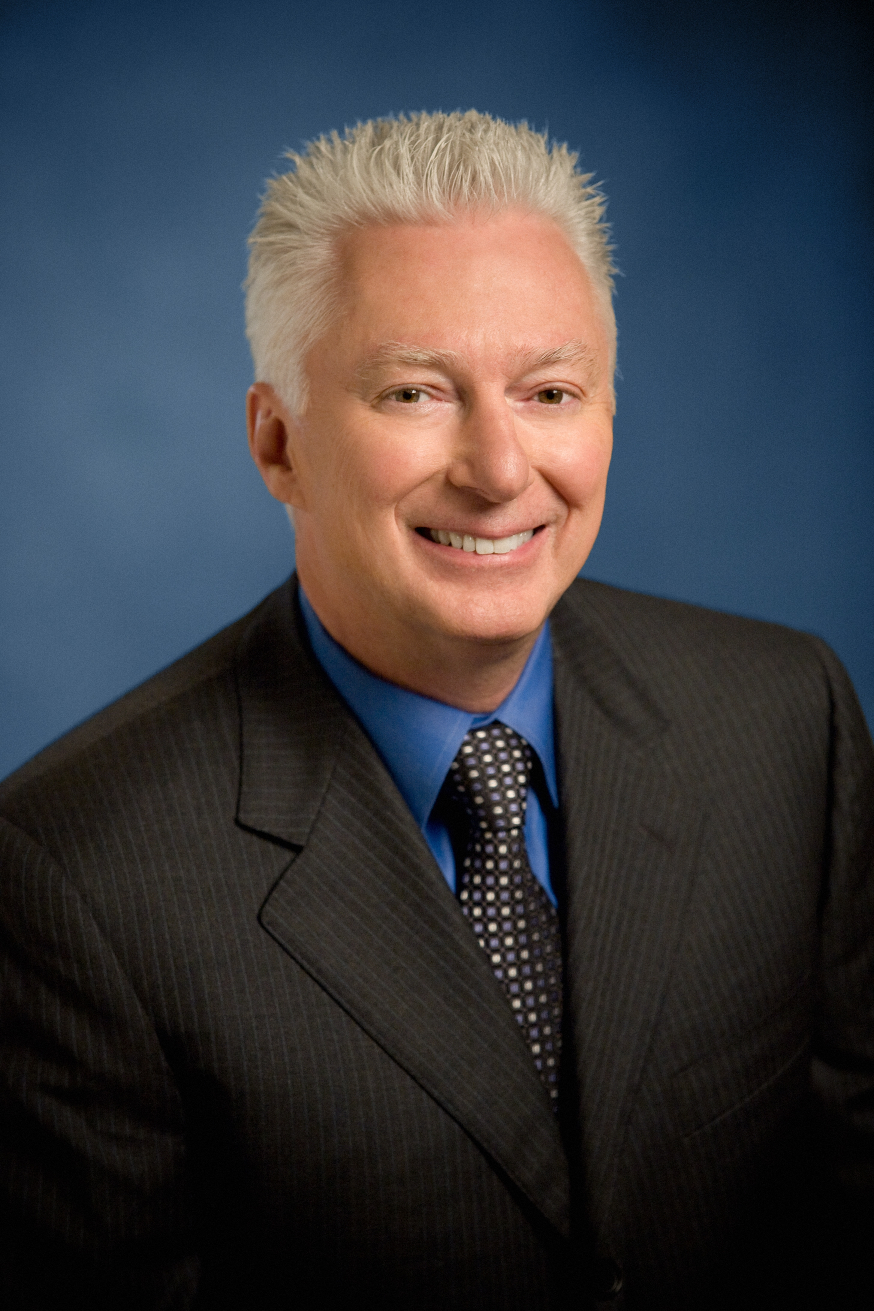 Headshot photo of A.G. Lafley, CEO of Procter & Gamble